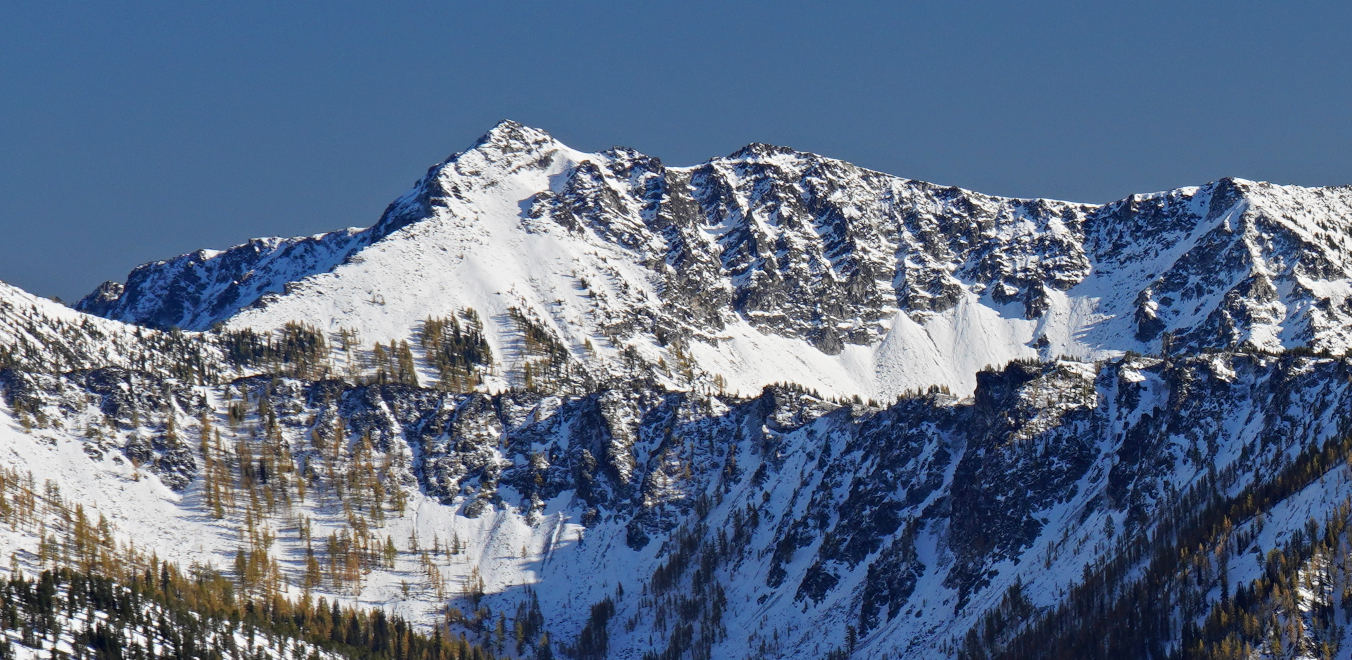 From Pt 7912- view SE towards Martin Peak on Sawtooth Ridge, Methow Mountains.